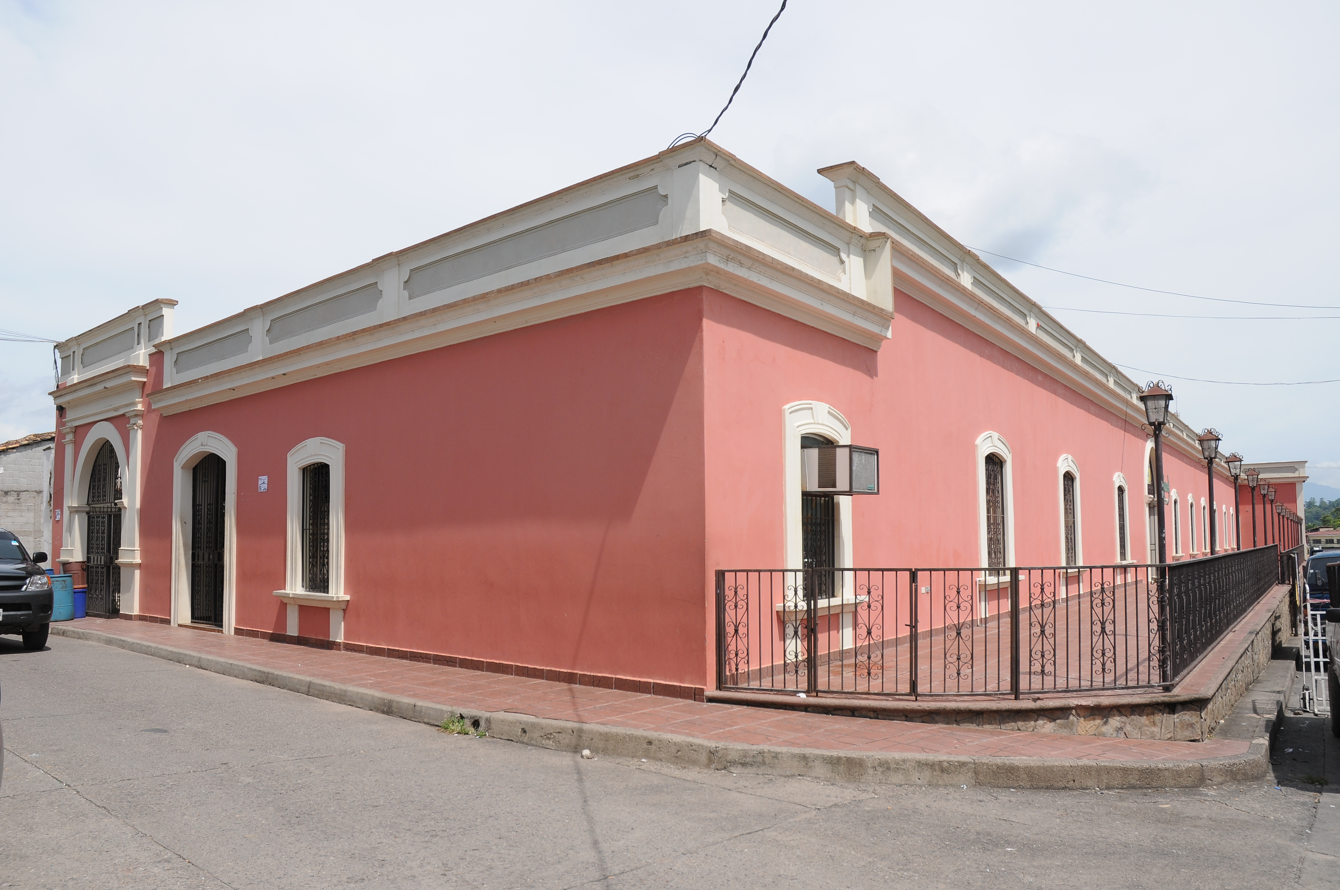 Vista del campus UTH en Santa Bárbara